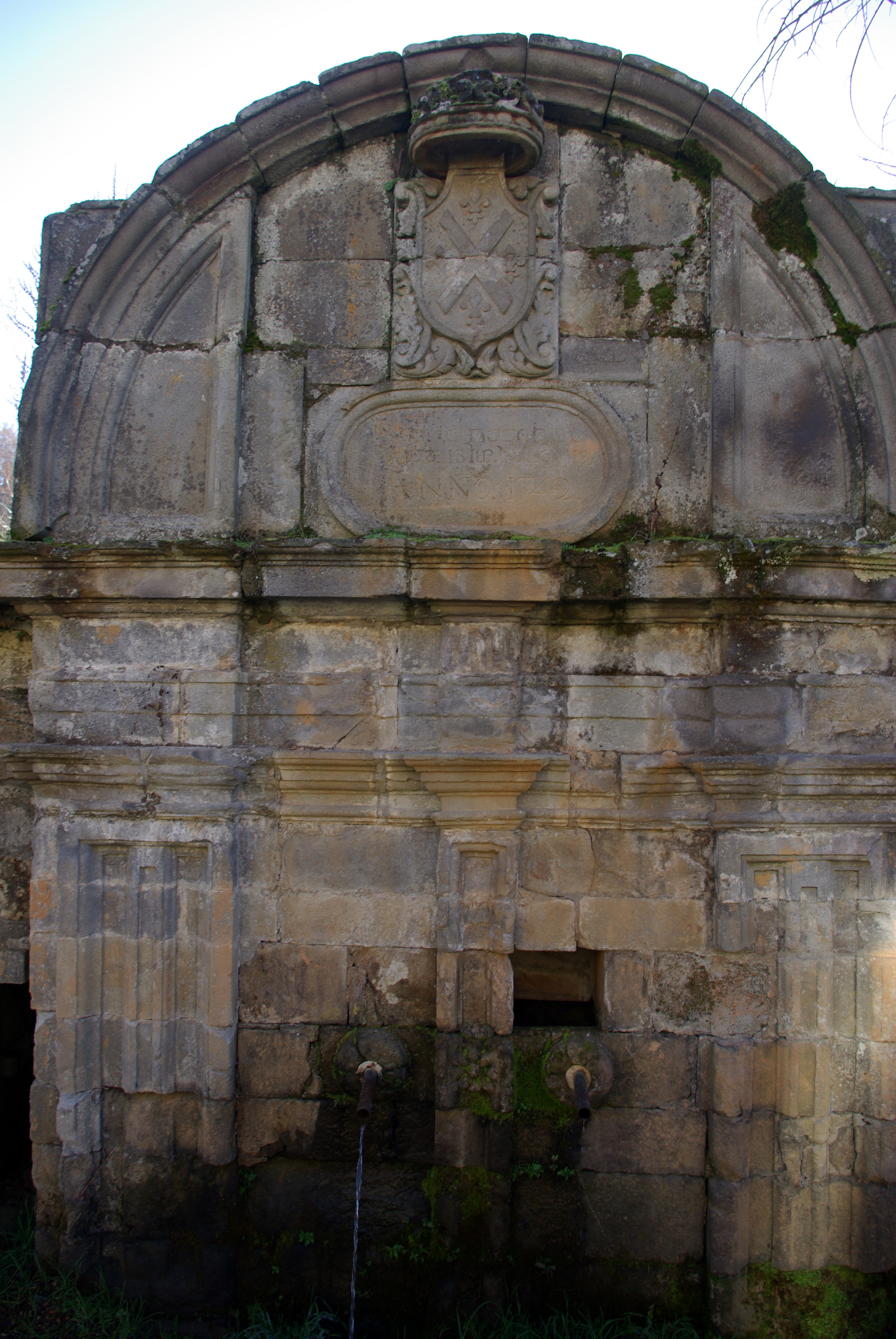 Saint Andrew of Espinareda Abbey in Vega de Espinareda (León, Spain). Fountain.